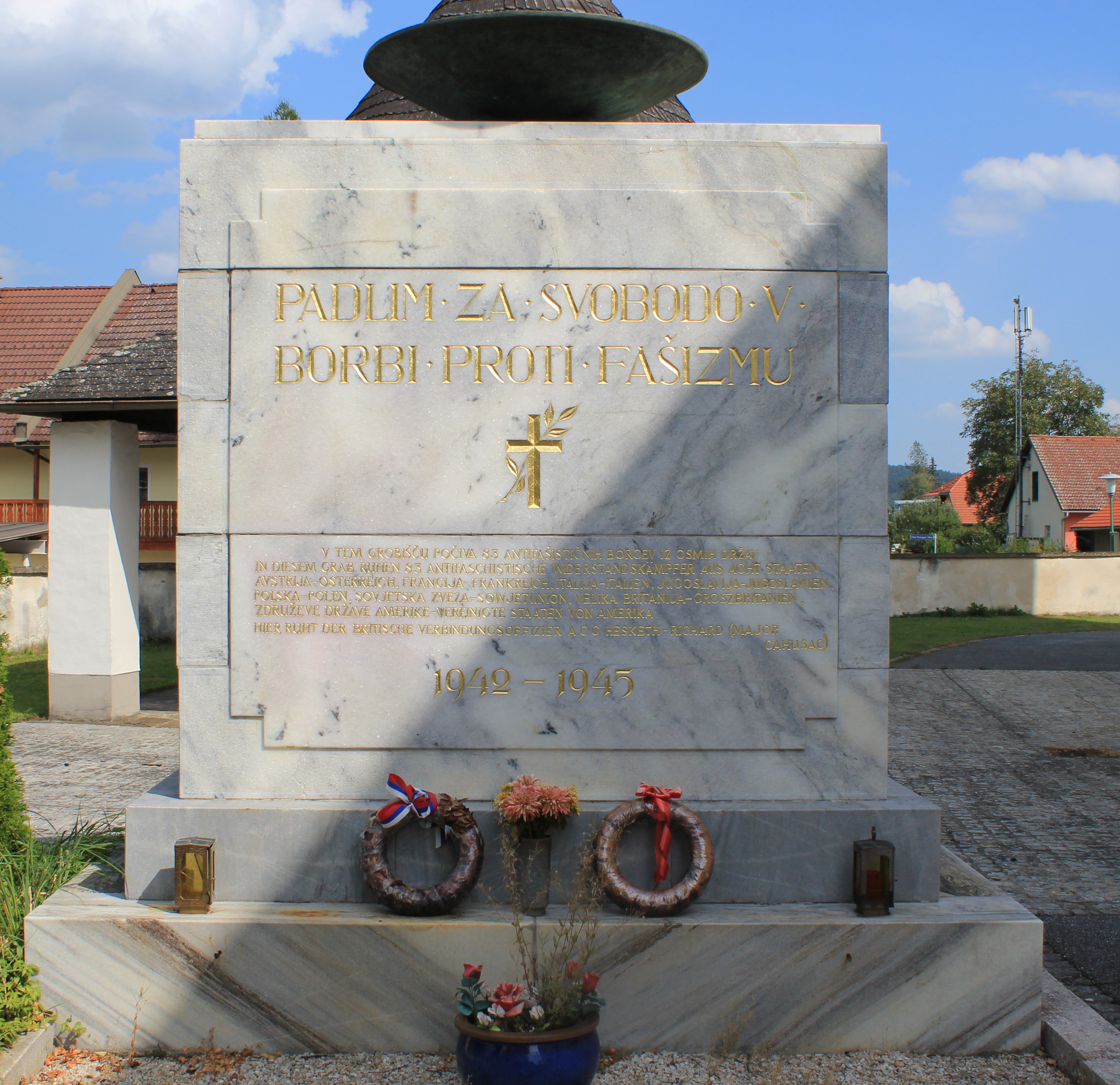 Parish-church St. Ruprecht in Völkermarkt - war memorial